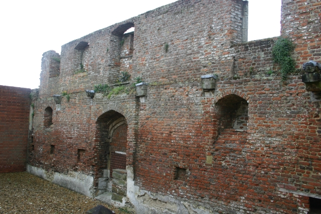 A view of Tattershall College, an English Heritage site in Tattershall, England.